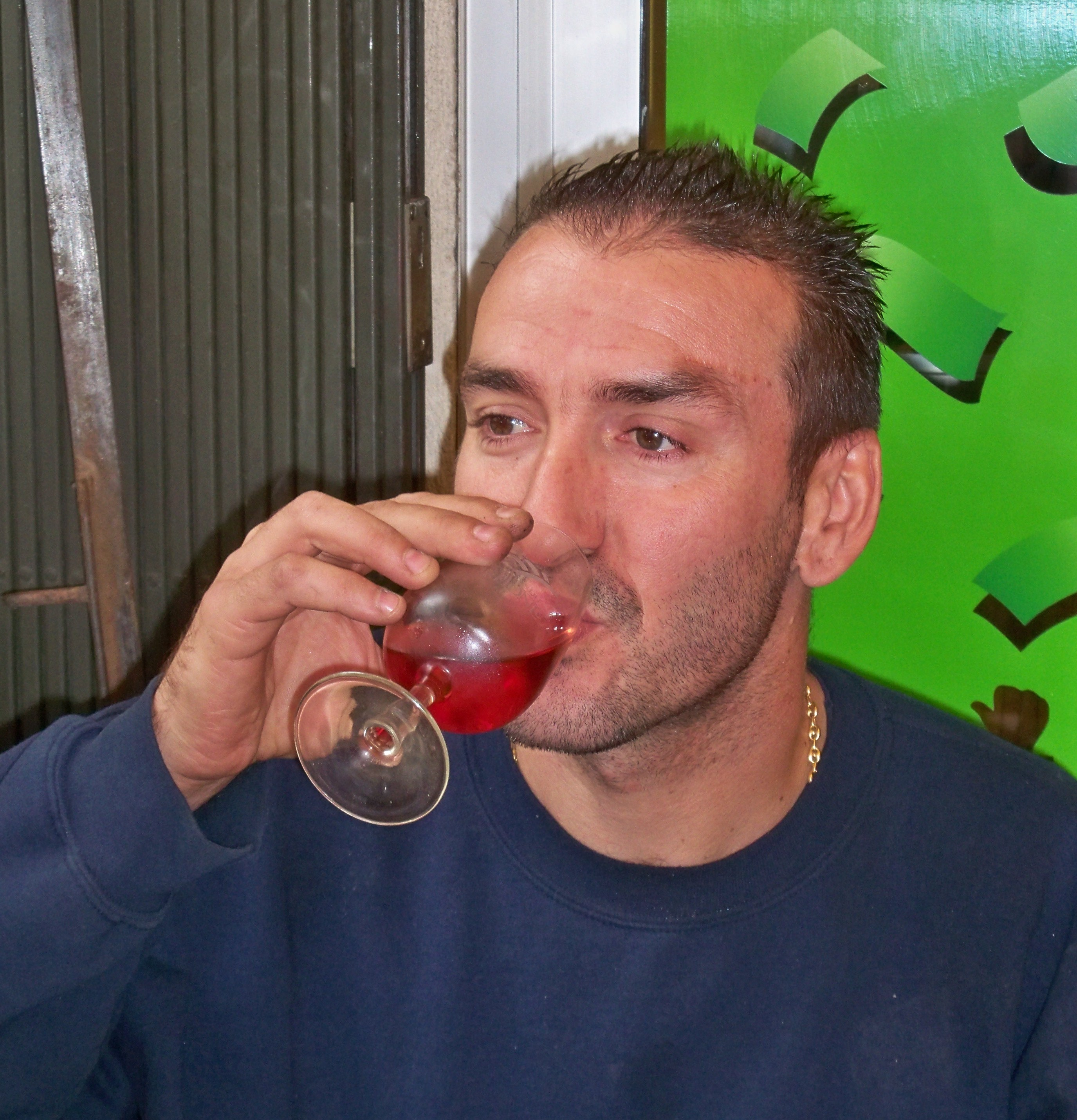 wine tasting